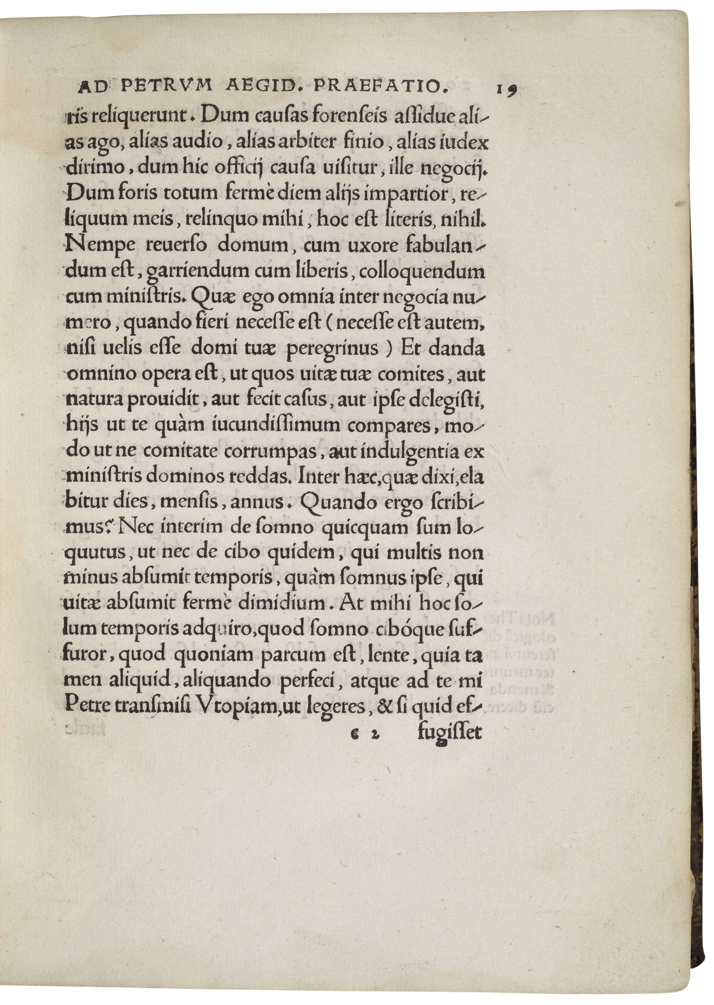 This is the page 19 of Thomas More's Utopia, a page of his letter to P. Gillis in which Th. More write about his Vtopia